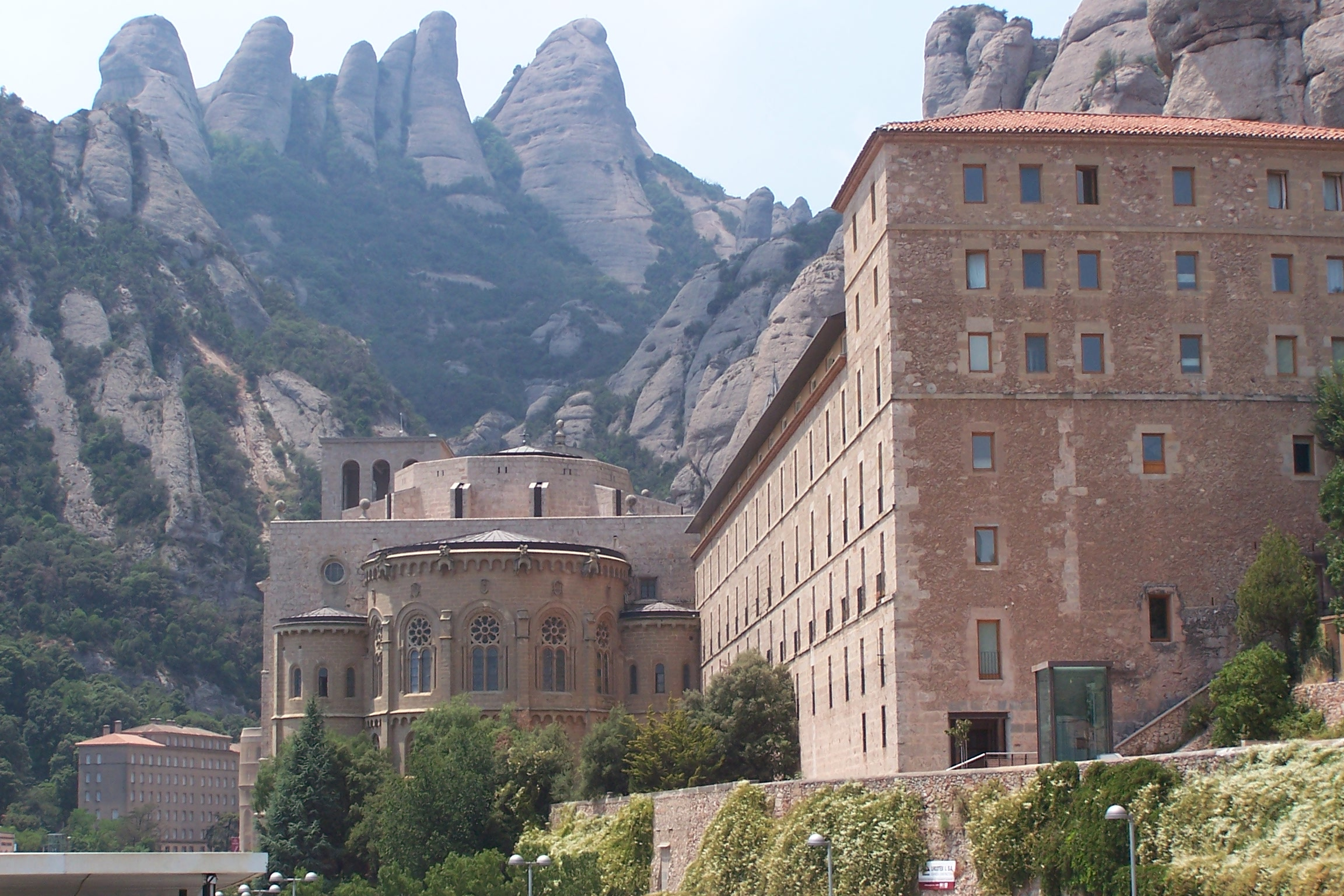 Benedictine monastery of Montserrat, Catalonia/Catalunya. Eigen werk, 30-04-2006